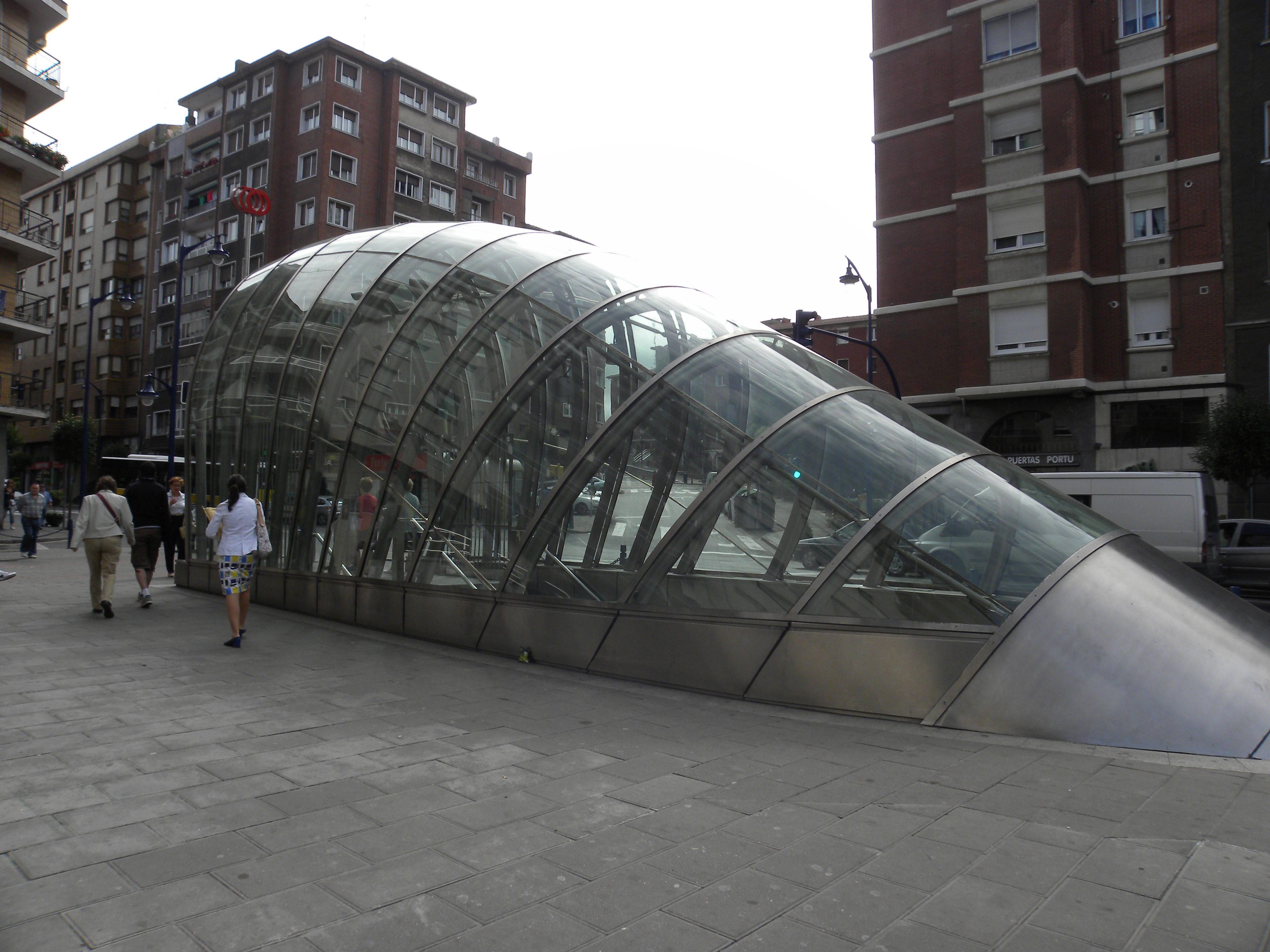 Heading back into Sir Norman Foster's Bilbao Metro.